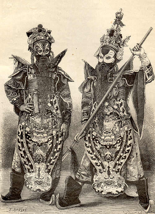 Costumes de théatre, à Hué : chefs guerriers